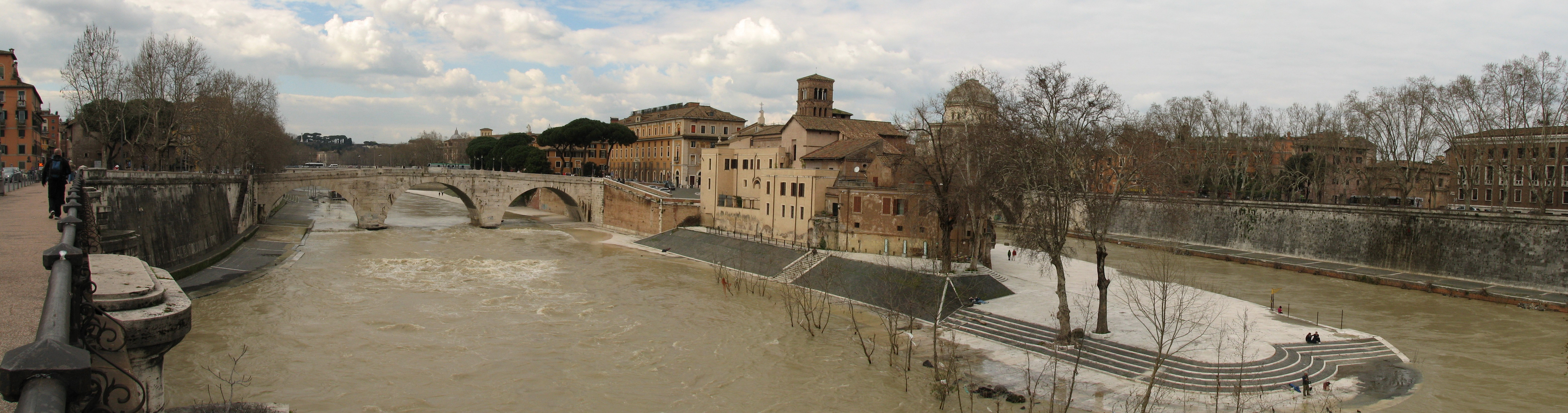 Panoramic view ò the Tiber Island and the Pons Cestius.